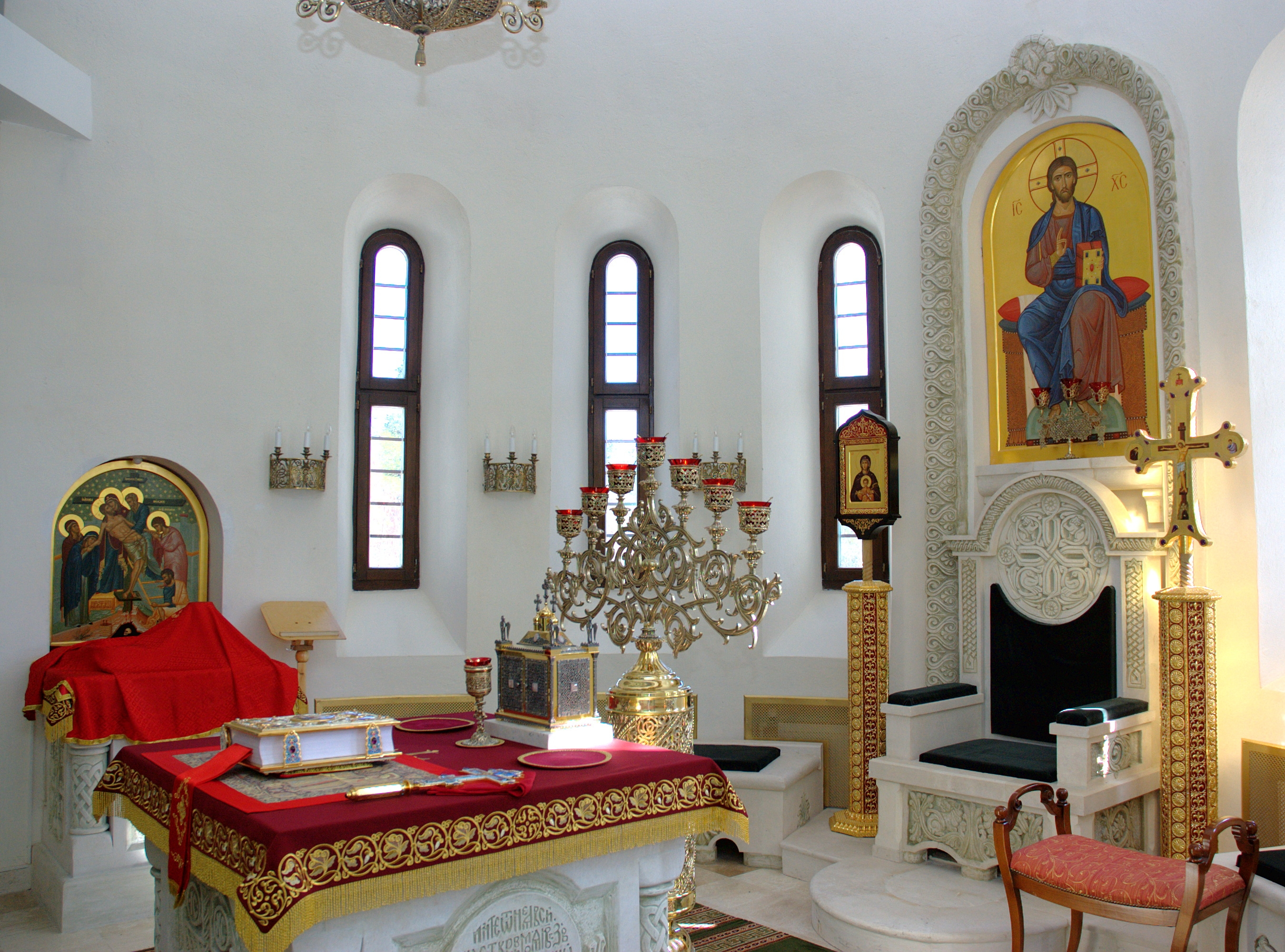 Altar at St. Vladimir Church, St. Vladimir Skeet, Valaam Monastery.